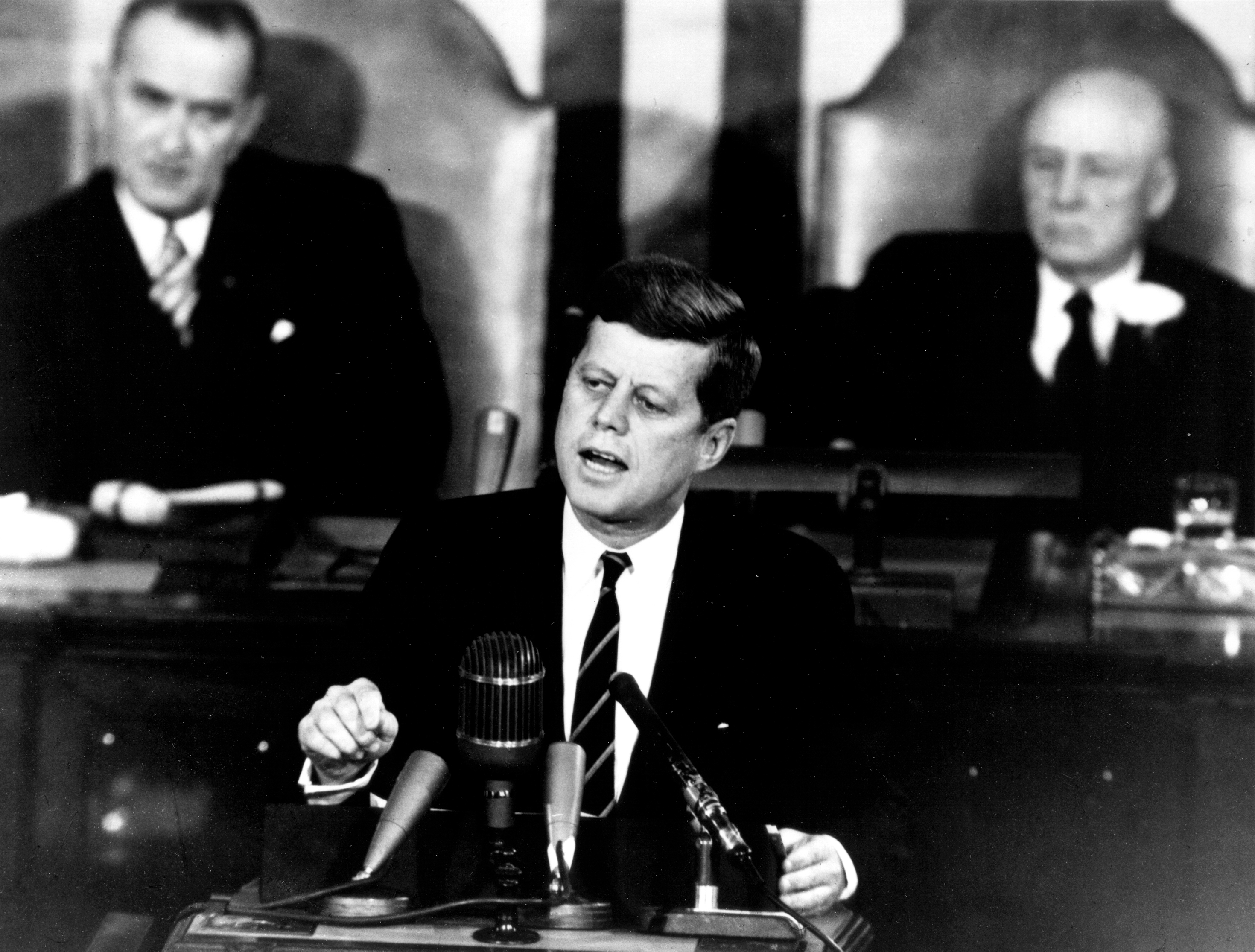 President John F. Kennedy in his historic message to a joint session of the Congress, on May 25, 1961 declared, "...I believe this nation should commit itself to achieving the goal, before this decade is out, of landing a man on the Moon and returning him safely to the Earth." This goal was achieved when astronaut Neil A. Armstrong became the first human to set foot upon the Moon at 10:56 p.m. EDT, July 20, 1969.Shown in the background are, (left) Vice President Lyndon Johnson, and (right) Speaker of the House Sam T. Rayburn.